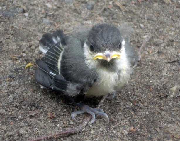 very young parus major